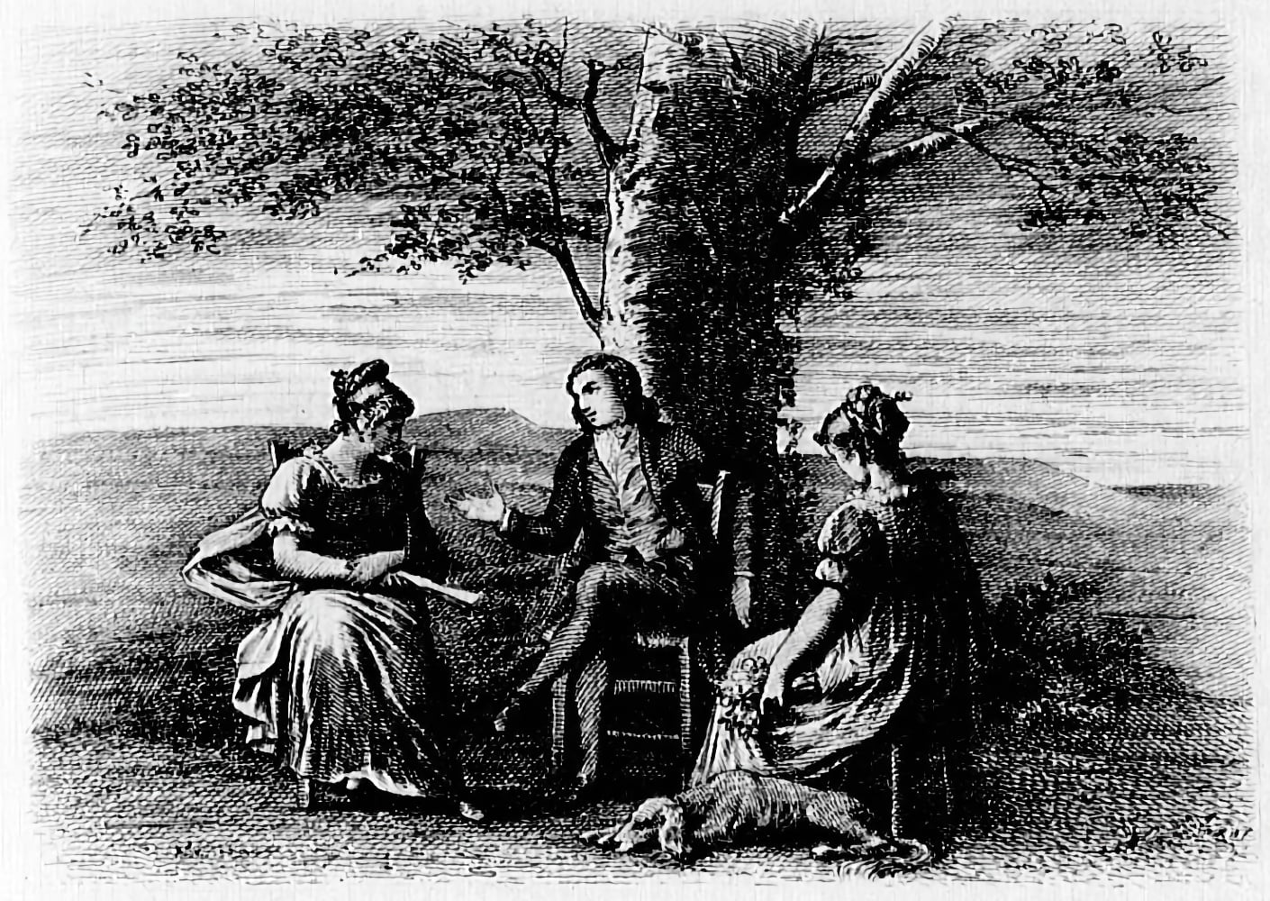 Illustration of The Red and the Black (1830) by Stendhal (1783-1842)